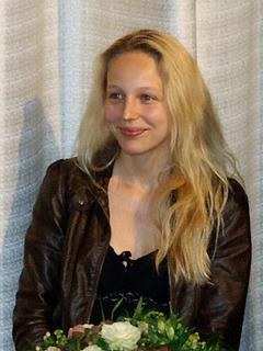 German actress Petra Schmidt-Schaller, Munich Film Festival 2010